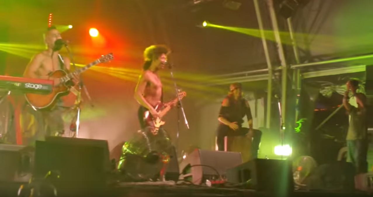 Nahko Bear Medicine for the People Woodford